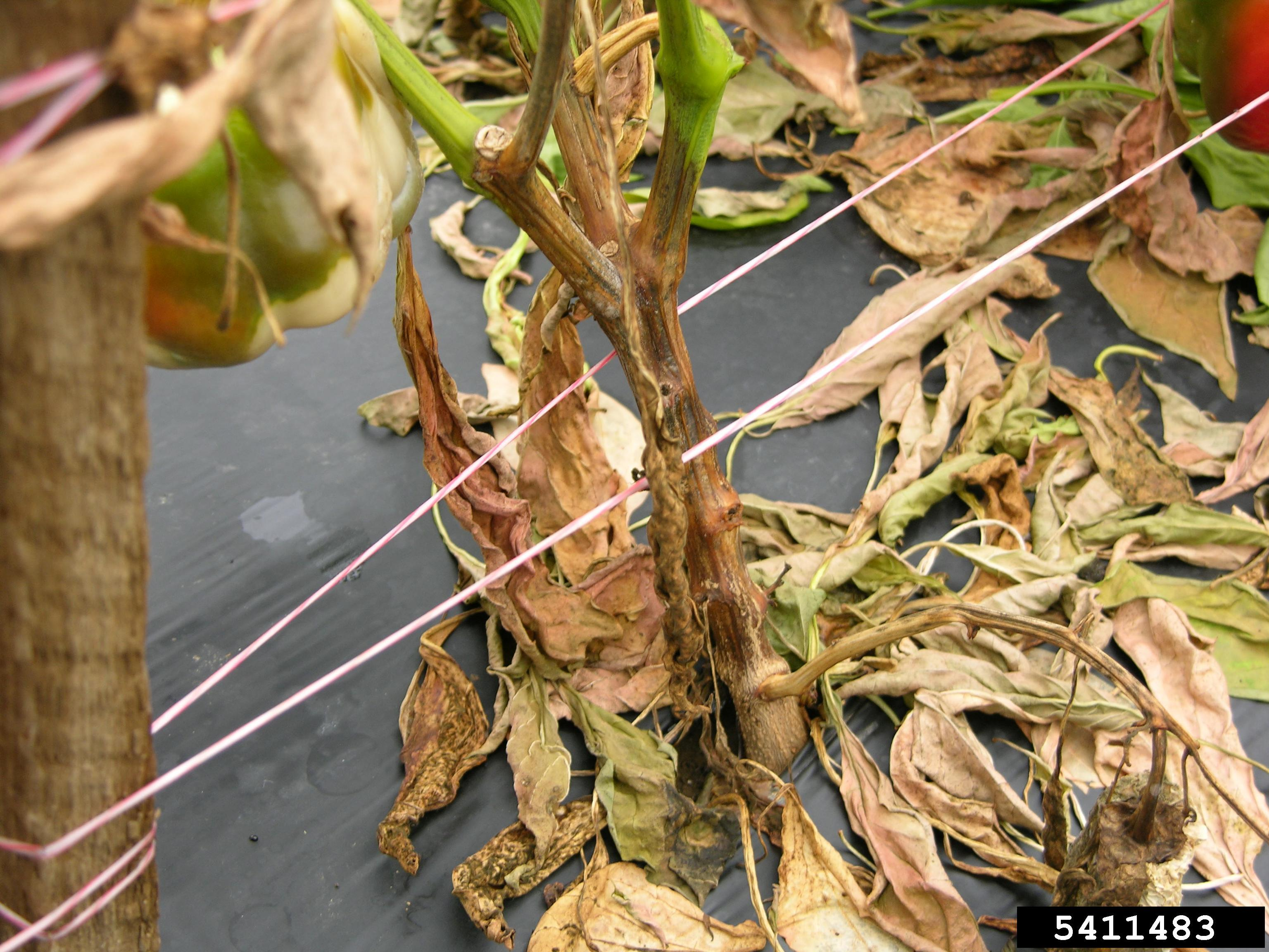 Phytophthora capsici blight on sweet pepper stem